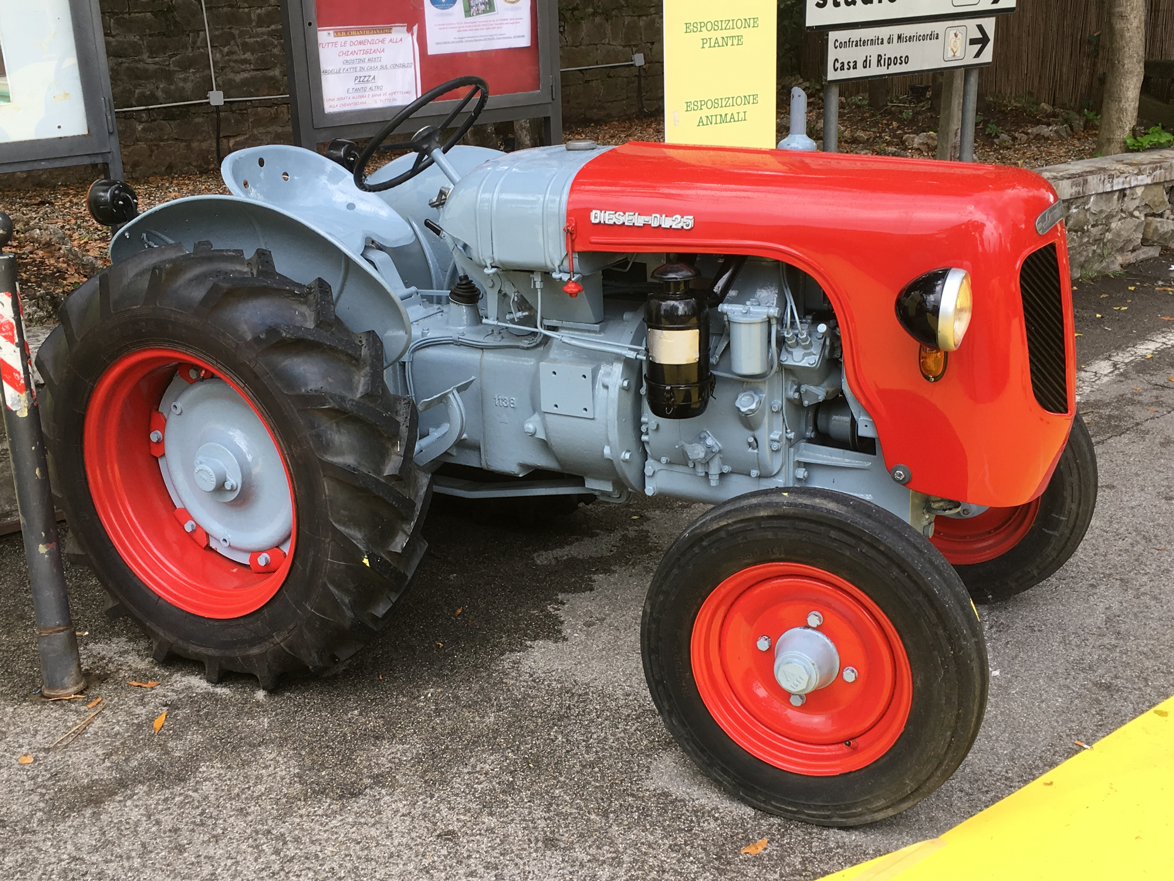 Lamborghini DL25 tractor at the Rural Festival, Gaiole in Chianti, Tuscany, Italy, 17–18 September 2016